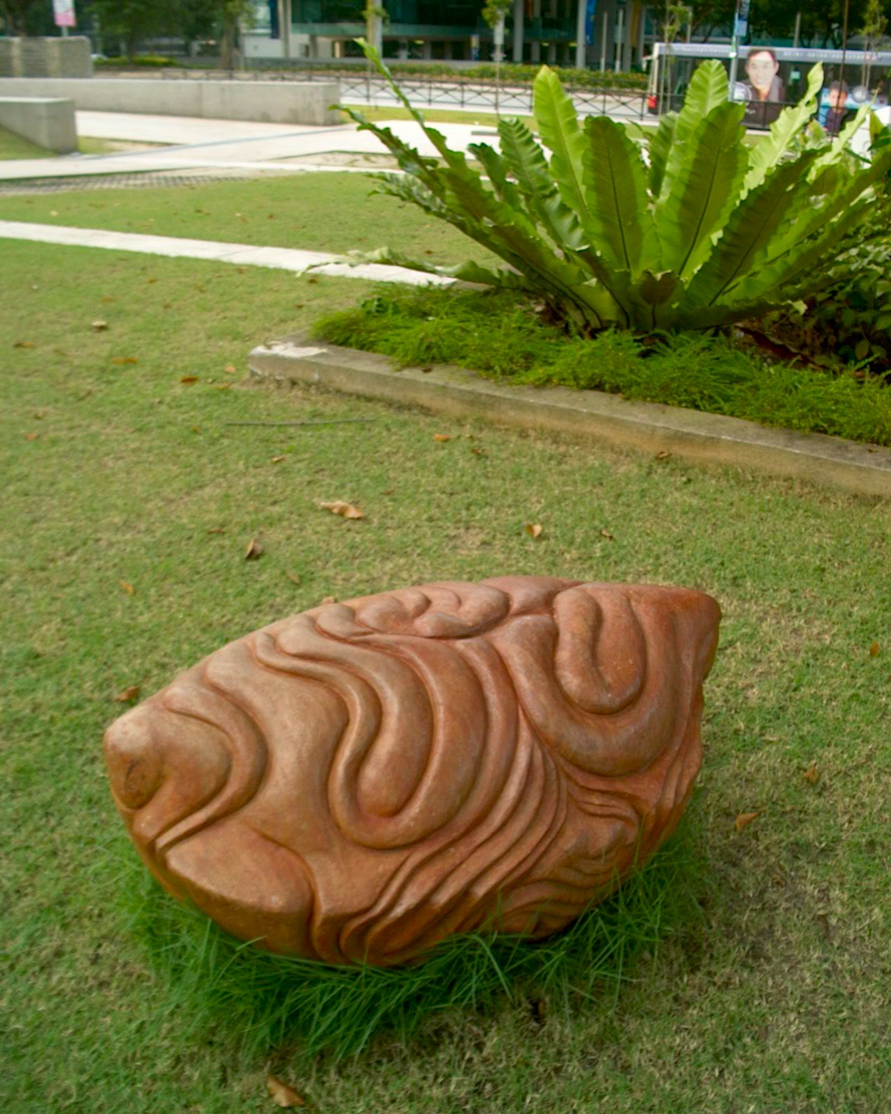 The smaller of the two pieces making up Singaporean sculptor Han Sai Por's sculpture Seeds, located in the grounds of the National Museum of Singapore. The two pieces were carved from sandstone excavated from Fort Canning Hill during the National Museum's redevelopment: see Seeds by Han Sai Por (Singapore), National Museum of Singapore, 2006, archived from the original on 14 June 2009, retrieved on 13 June 2009; Marguerita Tan, "Hidden treasures", Time Out Singapore (reproduced on the Singapore Tourism Board website), archived from the original on 14 June 2009, retrieved on 14 June 2009.